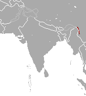 Gaoligong Pika (Ochotona gaoligongensis) range